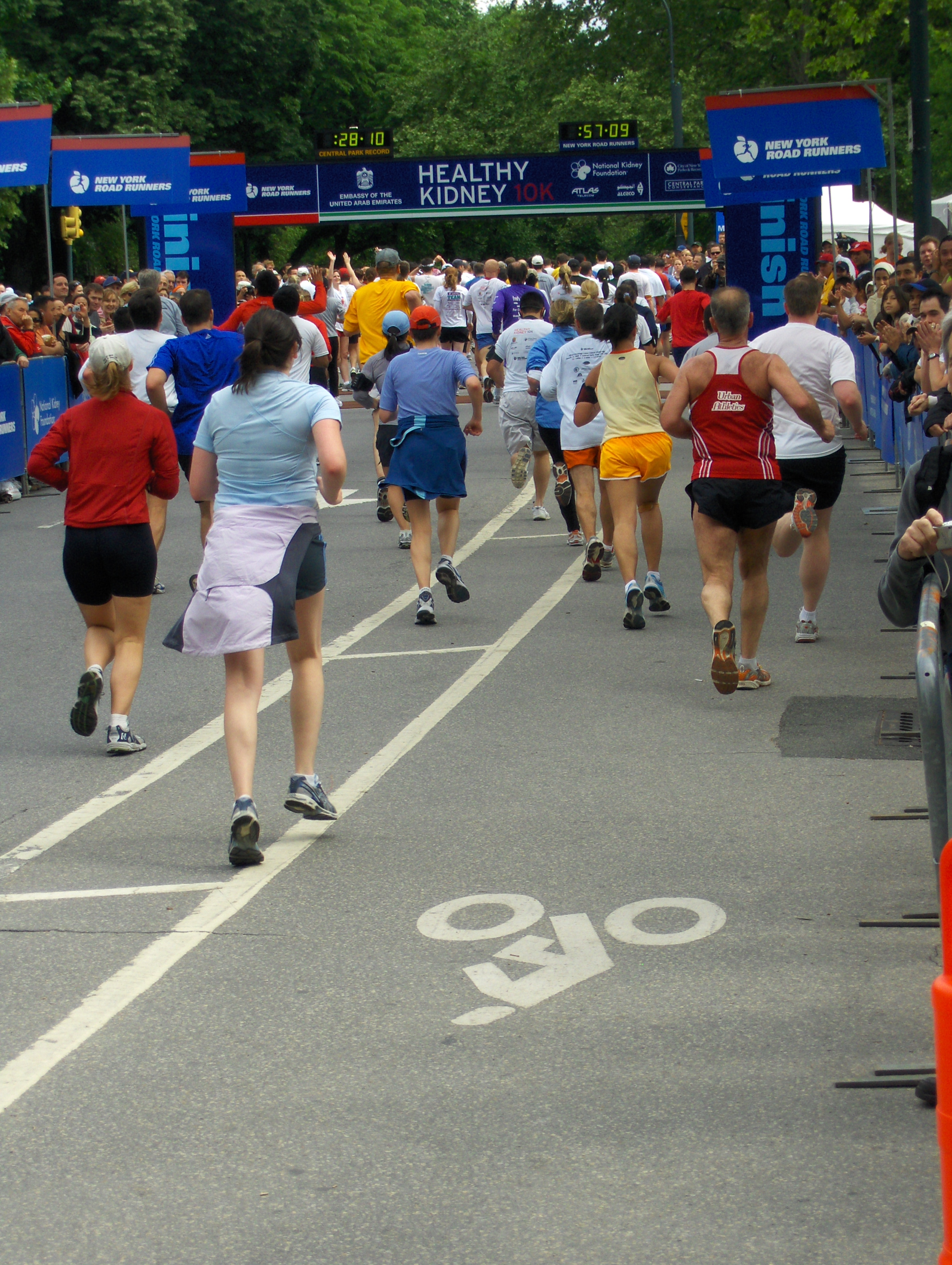 The finish line of the fun run section of the 2007 UAE Healthy Kidney 10K at Central Park, New York. (Original description: While we were waiting for Jenn to finish, I figured I'd take photos of random runners.)